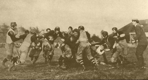 The pre-NFL version of the Columbus Panhandles playing during the 1910's at Indianola Park.